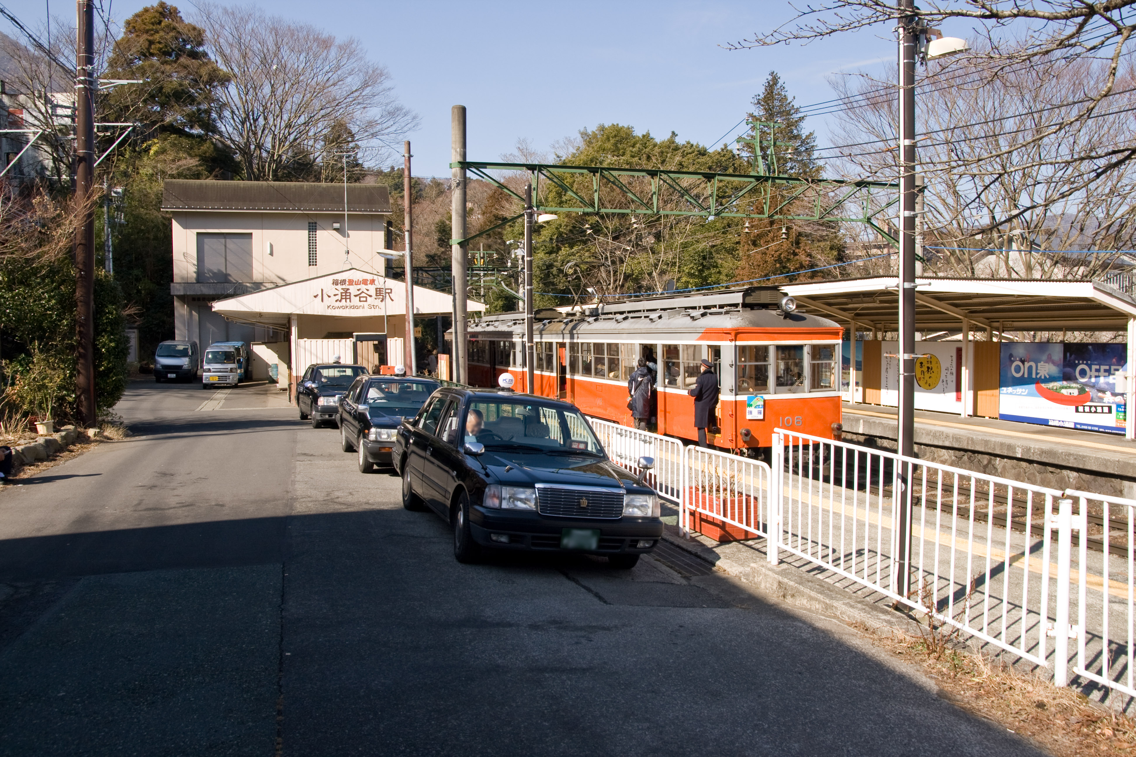 Kowakidani Station, Hakone Tozan Line, Hakone Town, Kanagawa Pref., Japan.